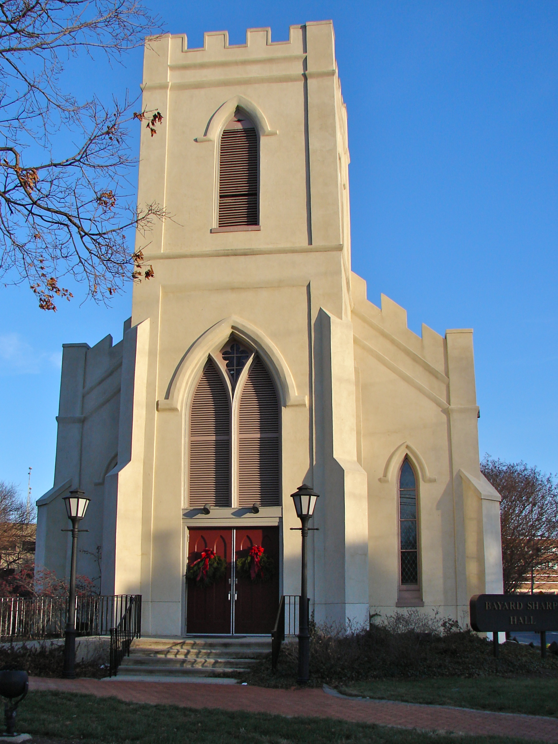 Old St. Thomas Episcopal Church. At 21 Elkton Rd. on the University of Delaware campus, Newark, New Castle County, Delaware. Now Bayard Sharp Hall at the U of D. - On the NRHP since May 7, 1982.